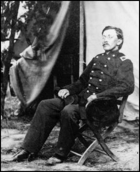 photo of George Henry Chapman (1832-1882)